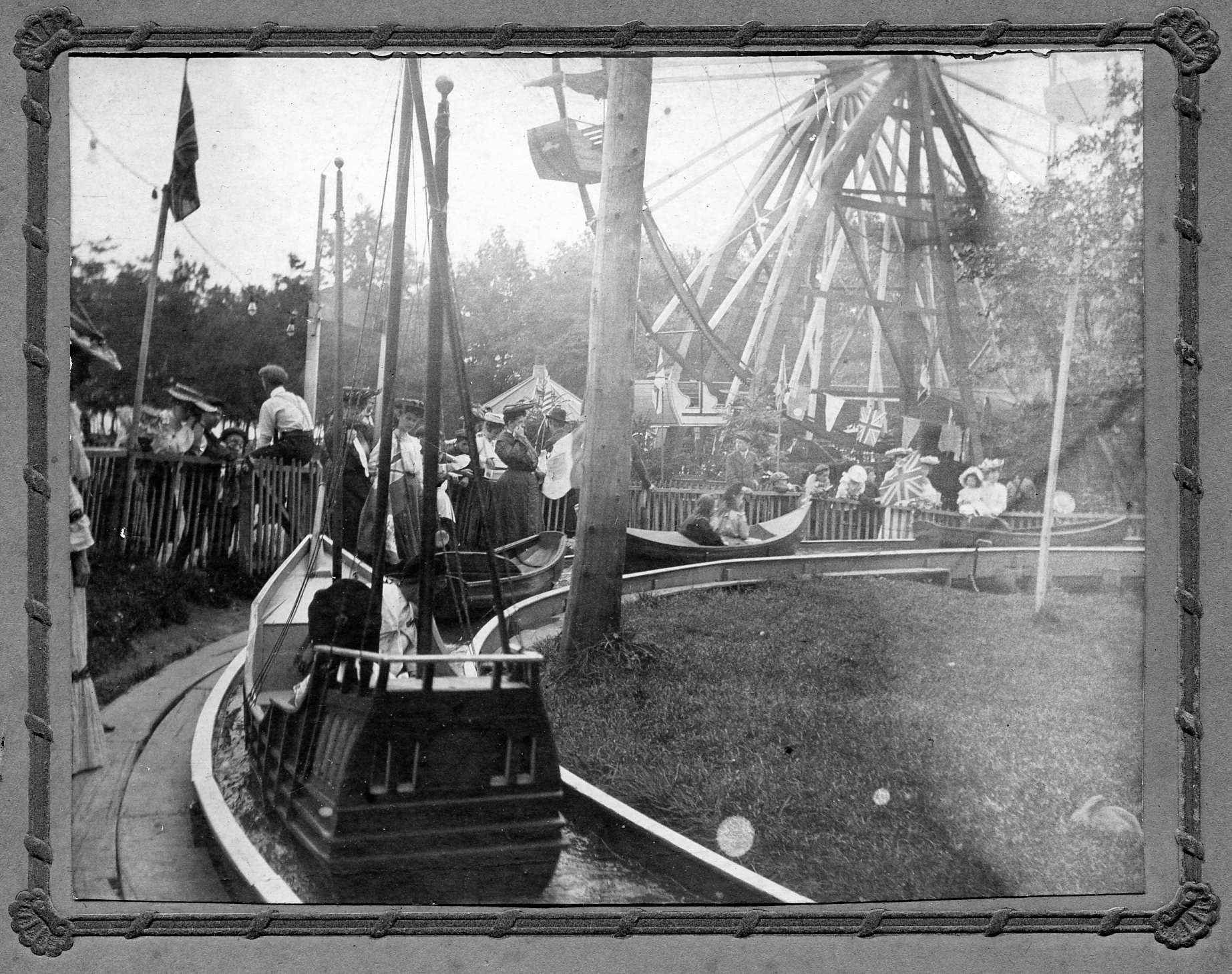 O L Hicks of Humber Bay, Ontario invented this carousal known as "The Flotilla". Boats were inspired by replicas of Columbus's ships travelling to 1893 Chicago World's Fair. Location is CNE grounds which was second site.